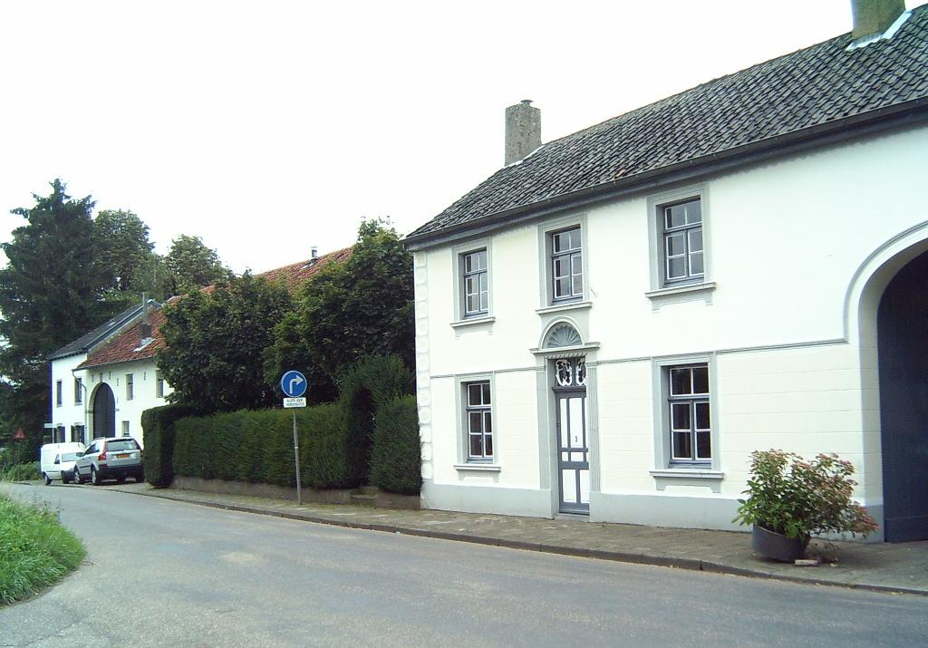 Limburgs: Haof in Kamp (Nut)